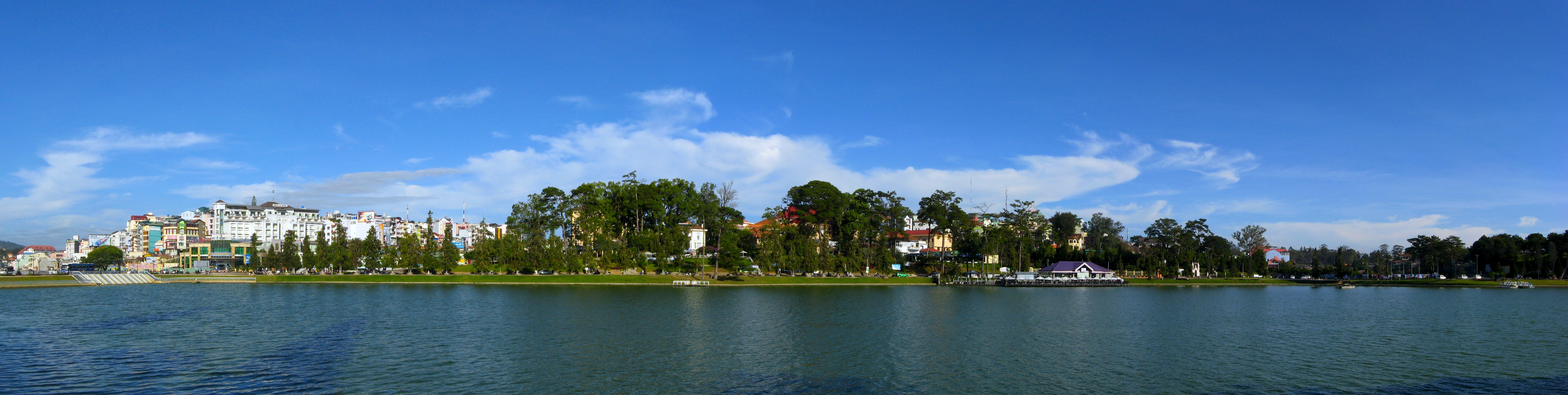 Chụp hồ Xuân Hương lúc sáng sớm